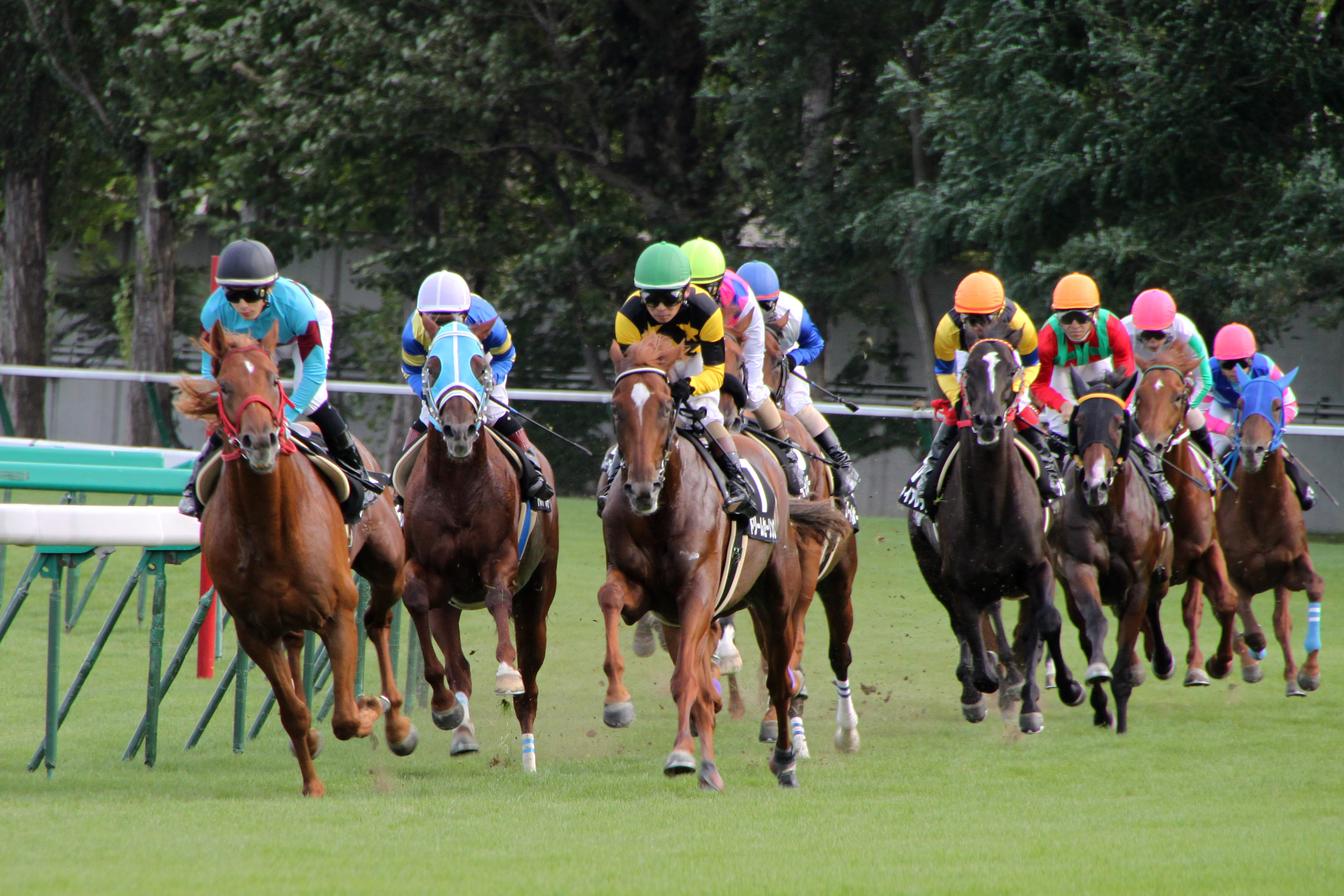 Sapporo Racecourse